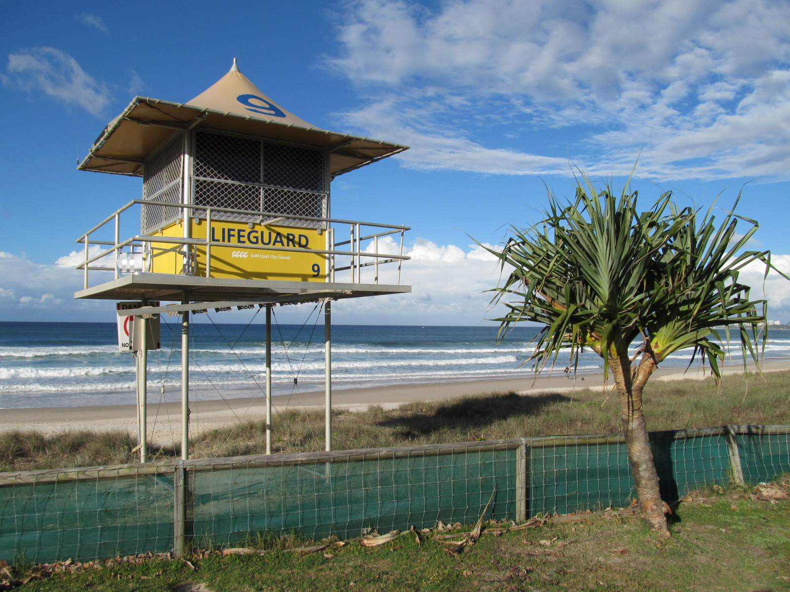 Lifeguard post on Tugun Beach manned by the Tugun Surf Lifesaving Club, near Coolangatta, Queensland